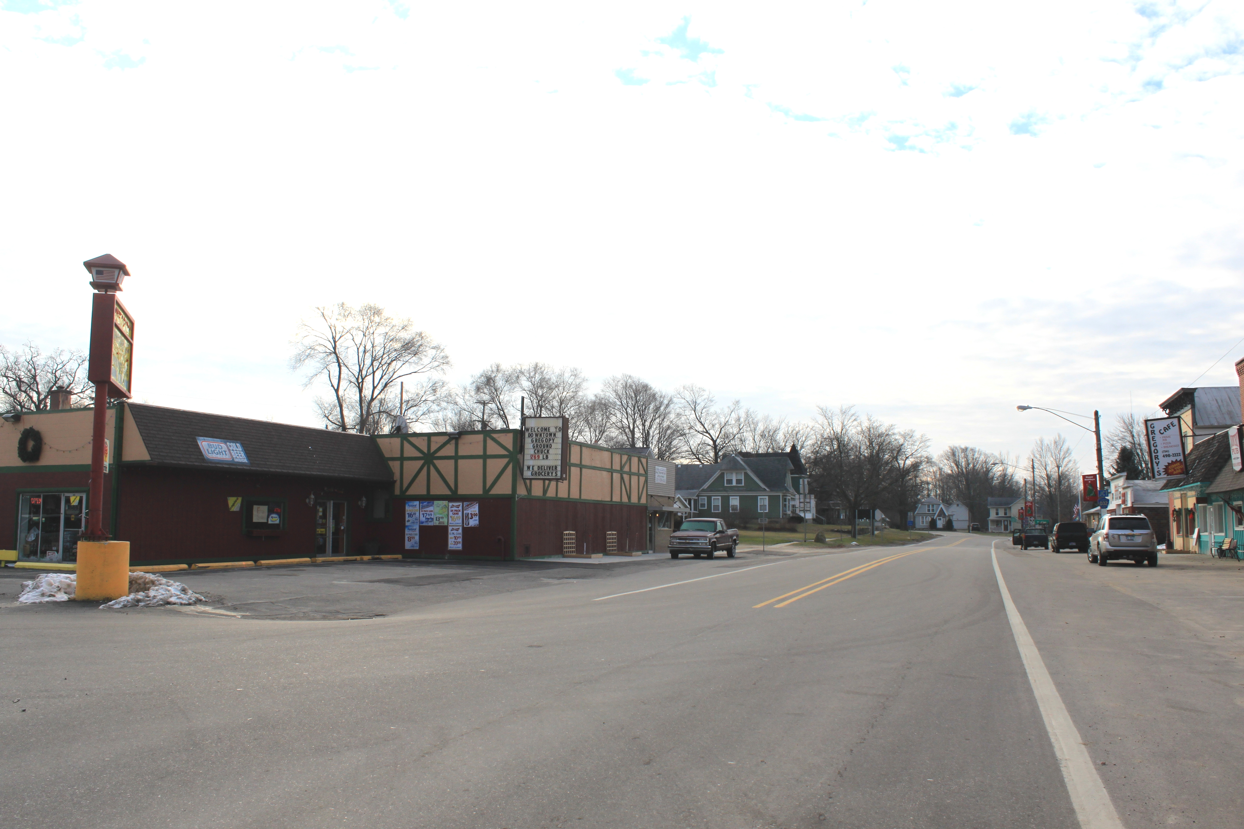 Main Street, downtown Gregory, Michigan